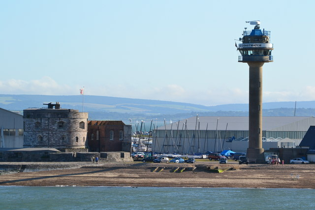 Calshot Castle and Coastguard Tower